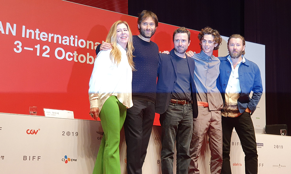 The King Dede Gardner - Jeremy Kleiner - David Michôd - Timothée Chalamet - Joel Edgerton (2019 BIFF)